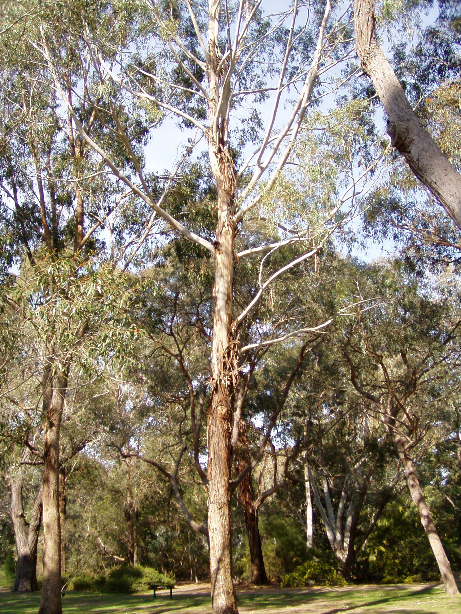 Description: Camden White Gum (Eucalyptus benthamii) Location: Australian National Botanic Gardens, Canberra, Australian Capital Territory, Australia Date: 2005-09-21 Source: picture taken by Danielle Langlois Licence: Released under GFDL and Creative Commons licenses by the photographer